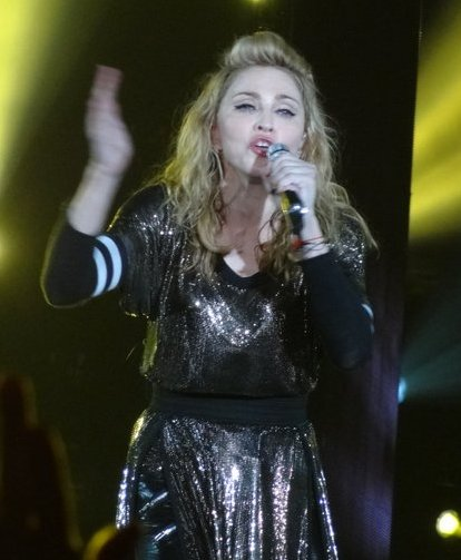 Madonna live at the o2 World, Berlin on 30 June 2012 during her MDNA Tour.